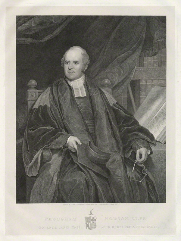 Portrait of Frodsham Hodson (1770–1822), English churchman and academic.